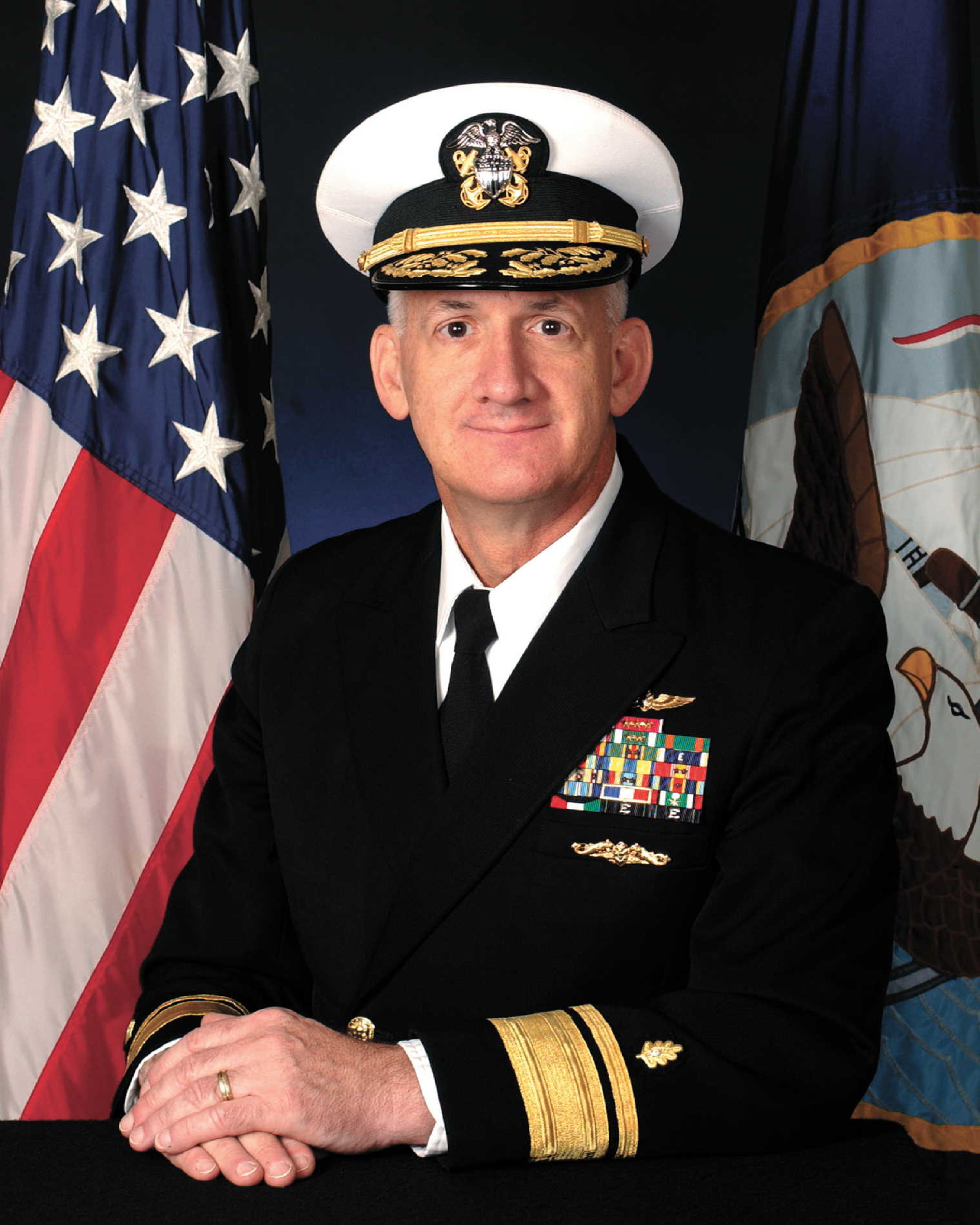 Official U.S. Navy file photo of Rear Adm. Donald C. Arthur. (RELEASED)